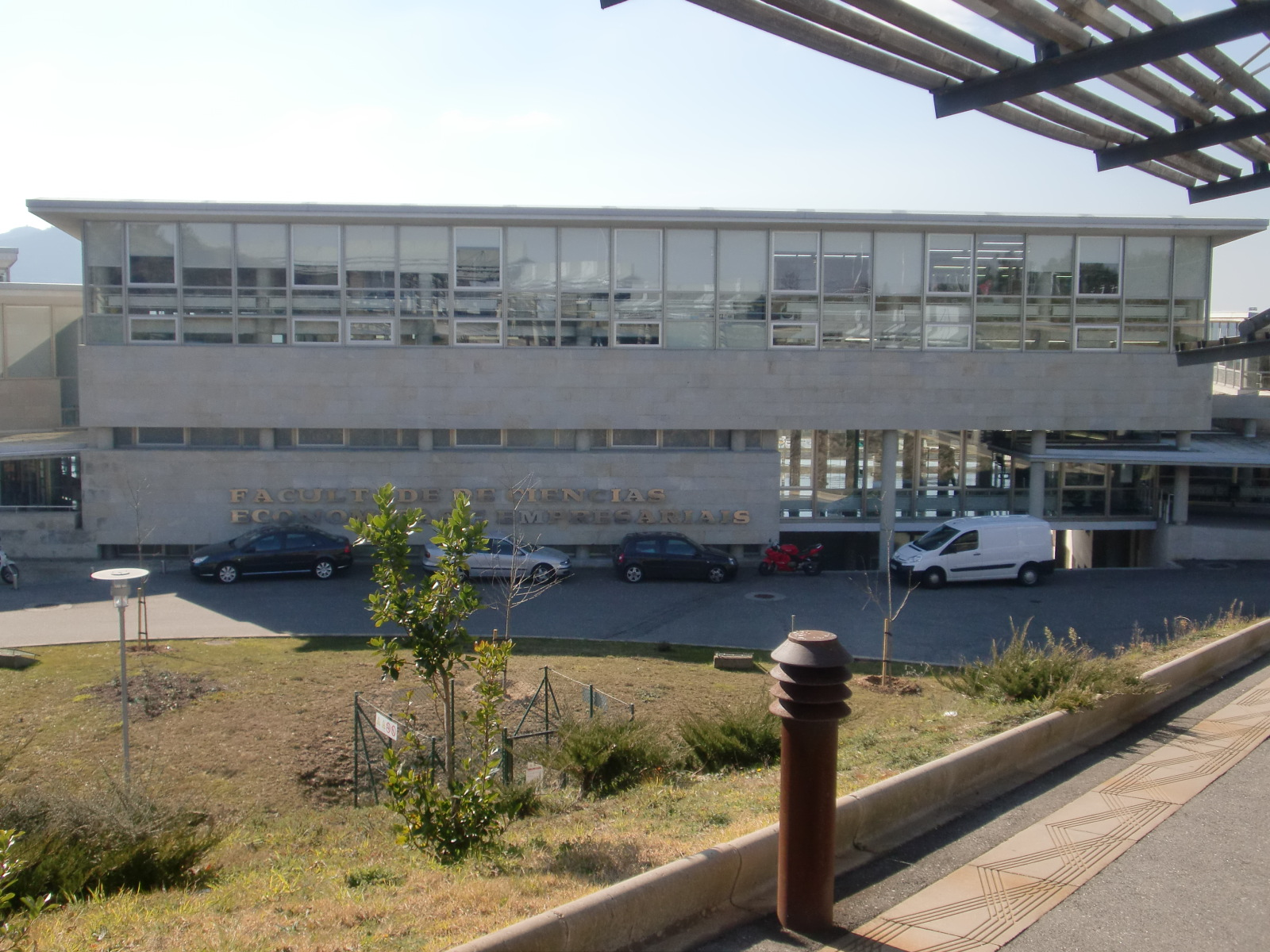 Faculty of Economics Sciences (Vigo University)